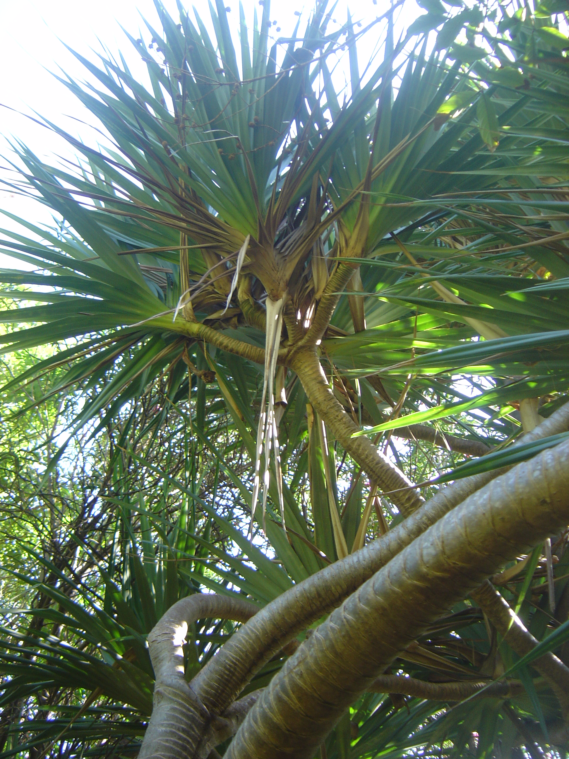 Photograph taken at the Jardin d'Éden botanical park, Saint-Gilles les Bains (commune of Saint-Paul), Réunion Island (Indian Ocean, a part of the French Republic).